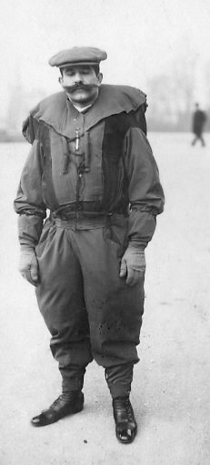 Franz Reichelt, before the fatal attempt